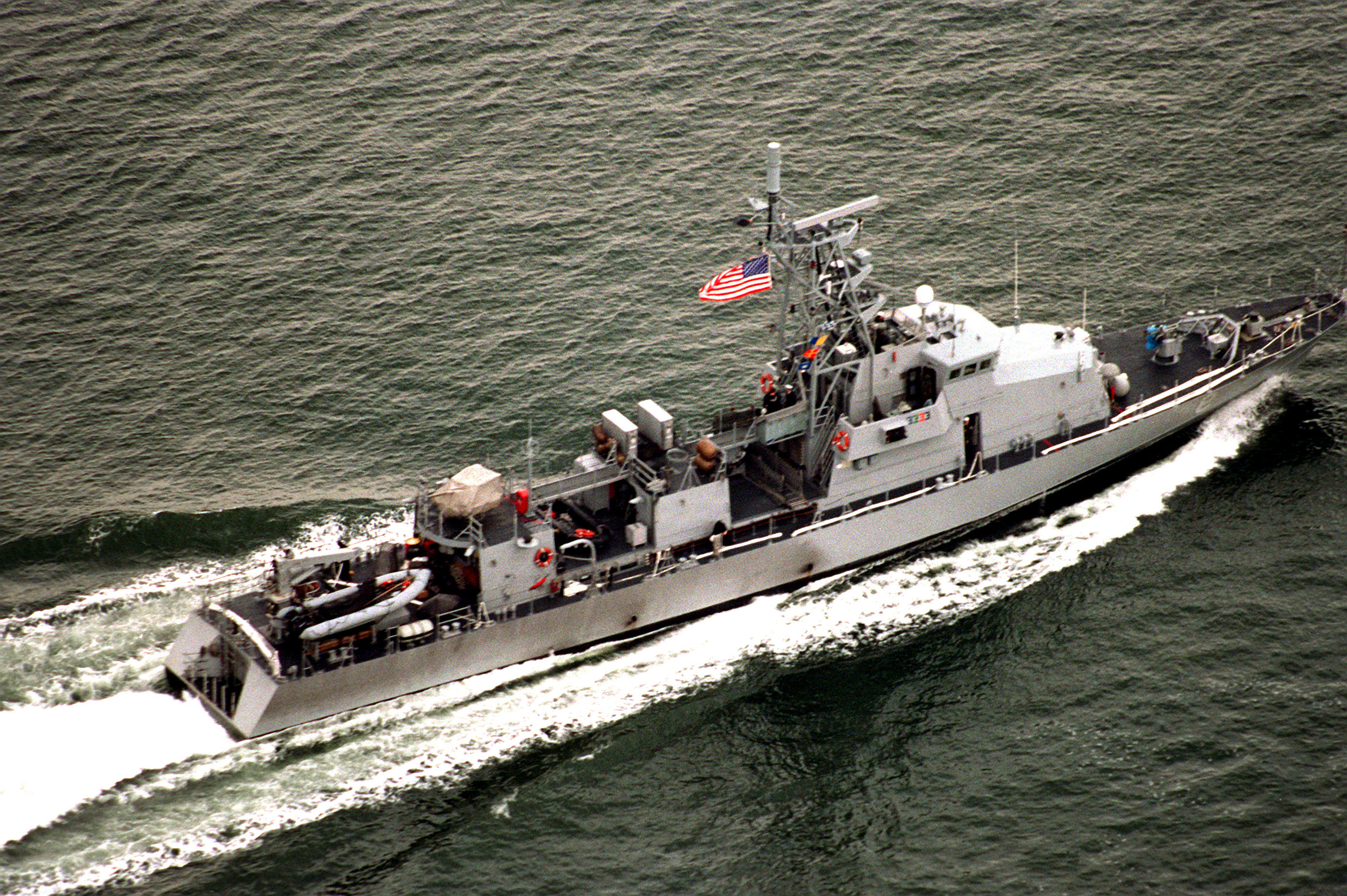 Aerial port side view of the coastal patrol craft USS CHINOOK (PC-9) underway. The CHINOOK, along with her sister ship USS FIREBOLT (PC-10), is returning from a Mediterranean deployment. Location: HAMPTON ROADSTEAD, VIRGINIA (VA) UNITED STATES OF AMERICA (USA)